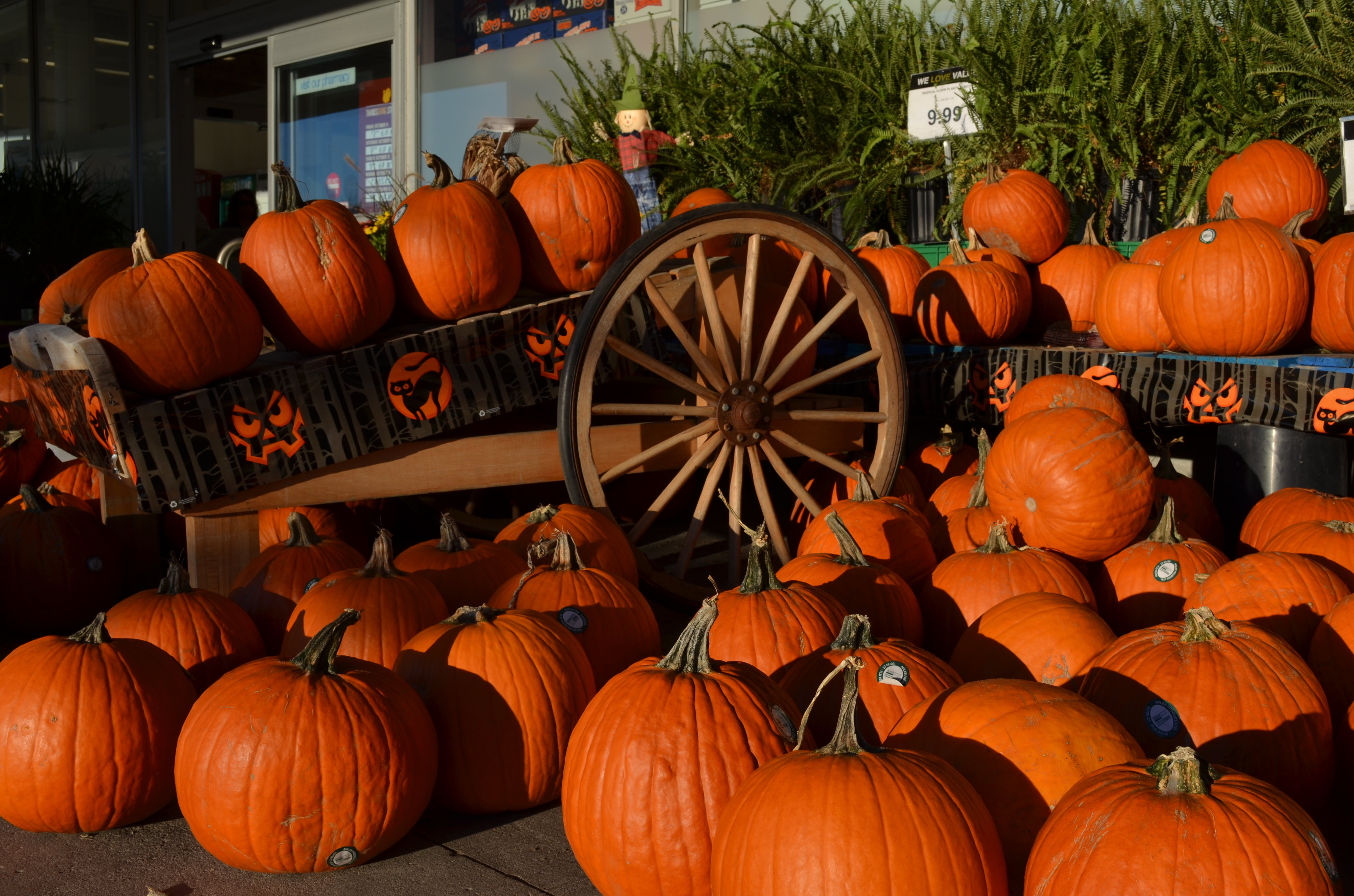 Pumpkins for sale during Halloween